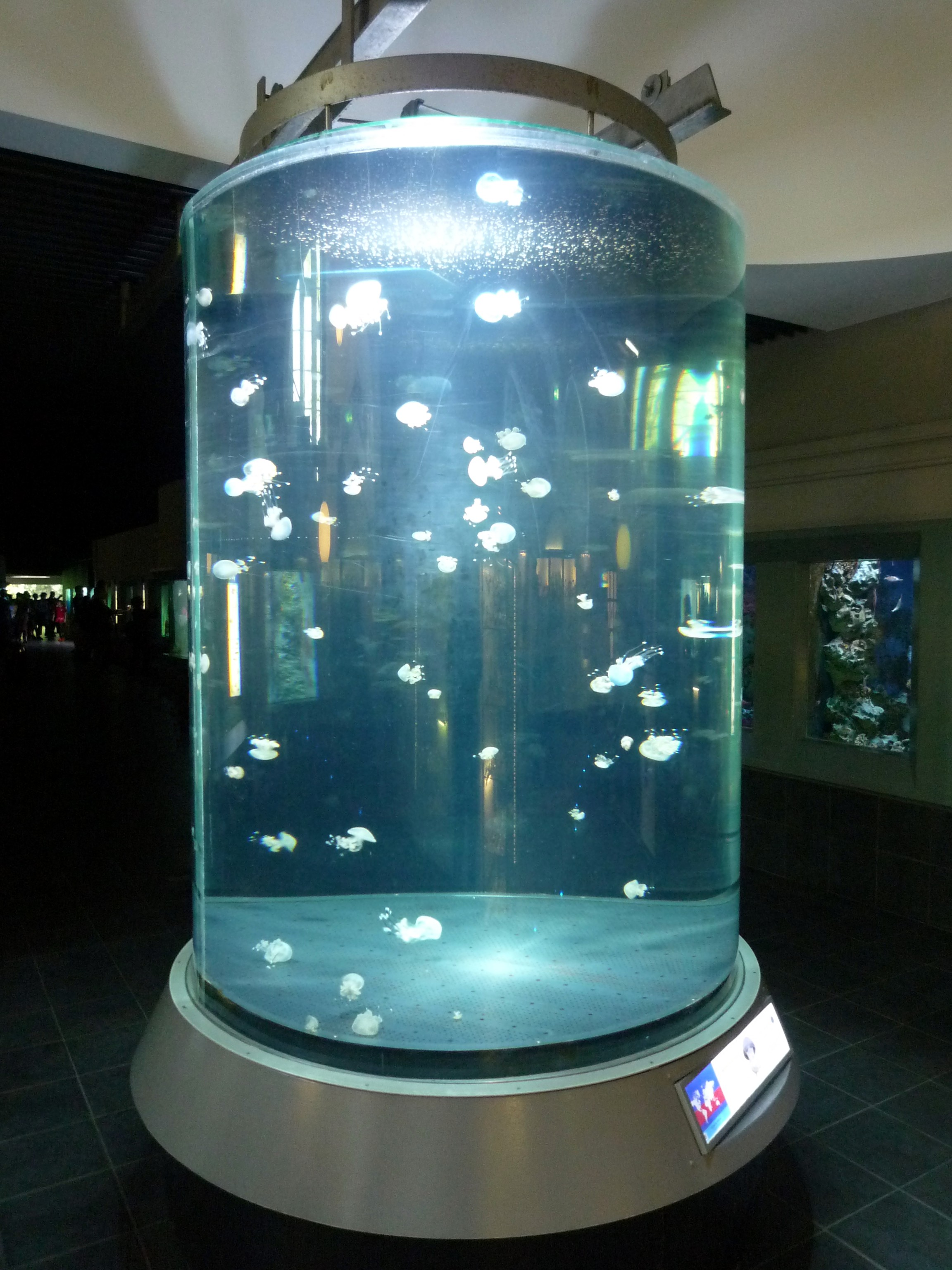 Zoo Aquarium Berlin, cylindrical show-basin with little jelly-fishes.